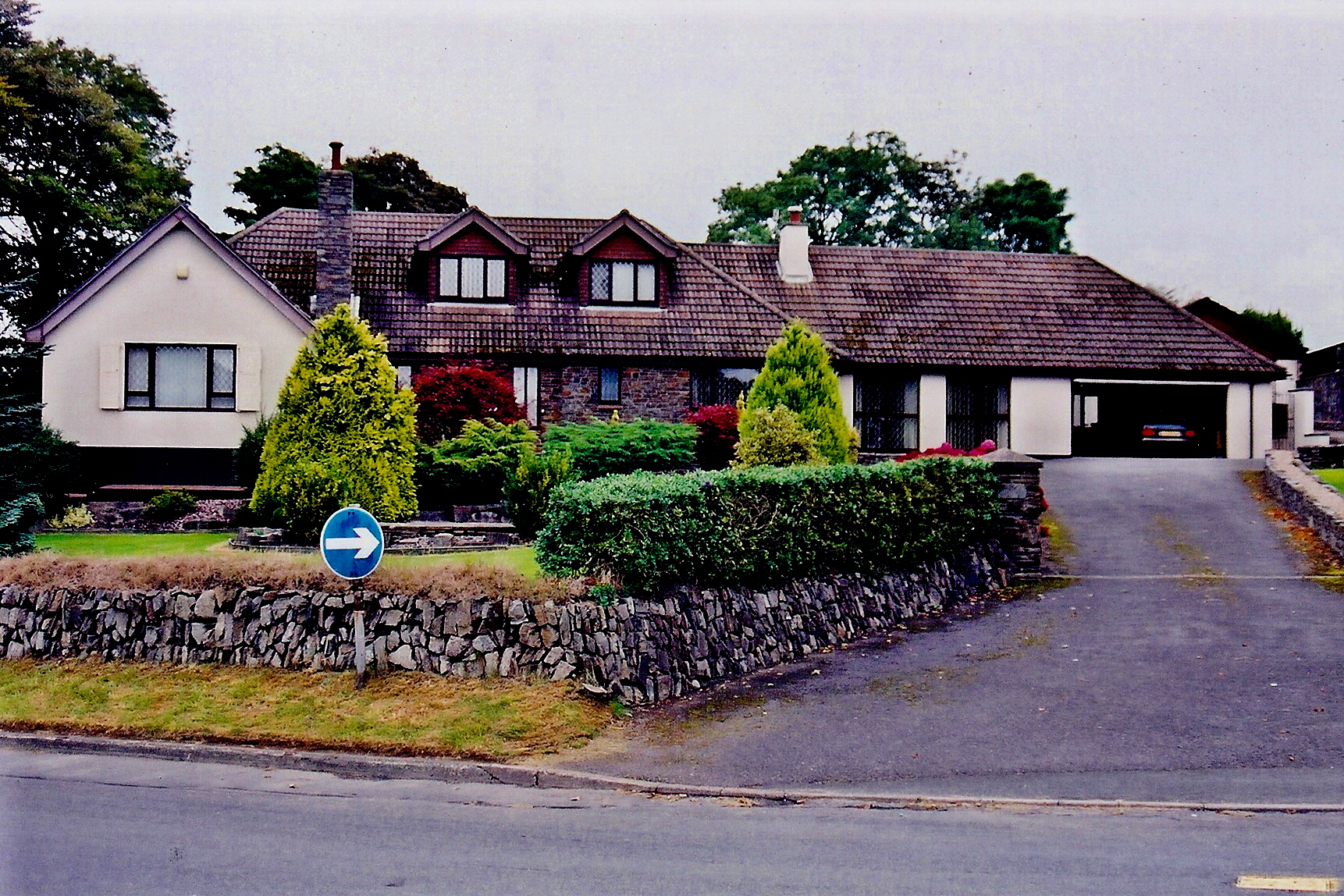 Onchan - Church Road - Large modern home View is to the northeast across Church Road from St Peter's Church. this home caught my attention, as it was unusually larger than any other homes I had seen on the Isle of Man. And, it was very nicely landscaped. After I took a couple of photos of this home, the owner walked down the driveway and talked with me for about a half hour. He advised me that he was English and had retired from BP after spending many years in the Middle East.